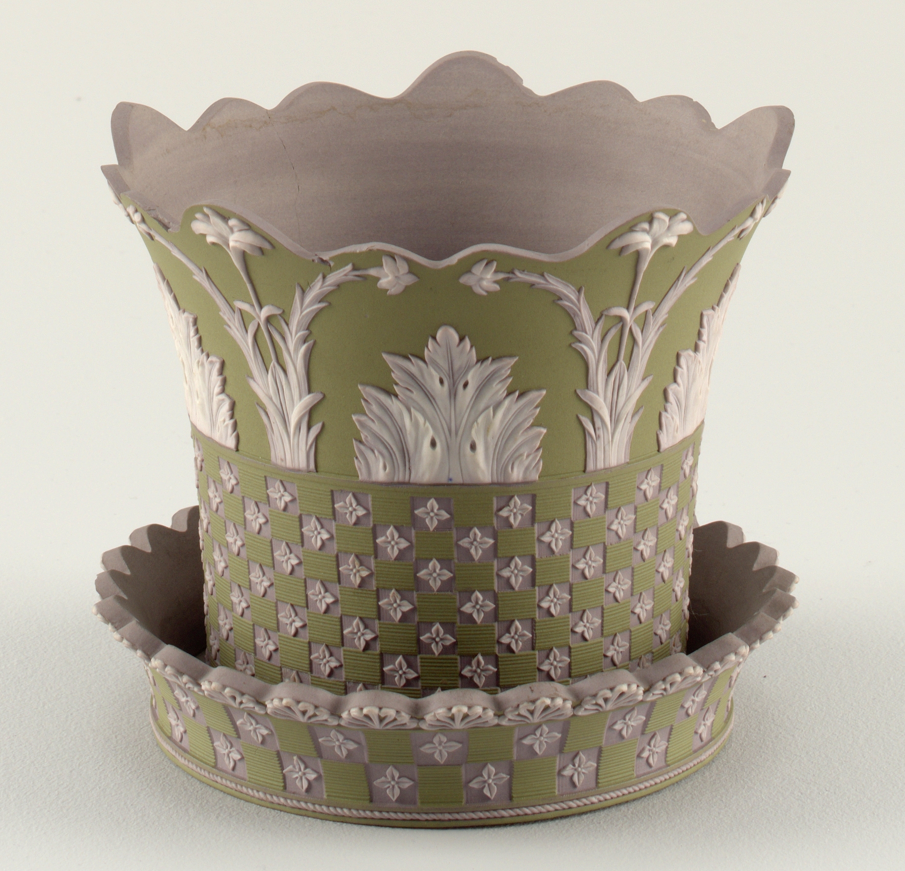 Round, flaring sides, shaped edges. Lower part of a) covered with “diced” decoration- violet squares with white quatrefoils, and green squares with horizontal ribbing. Upper part has green field, and alternating acanthus leaves and lily plants in white tinged with violet. B) has “diced” decoration and white molded anthemion band.